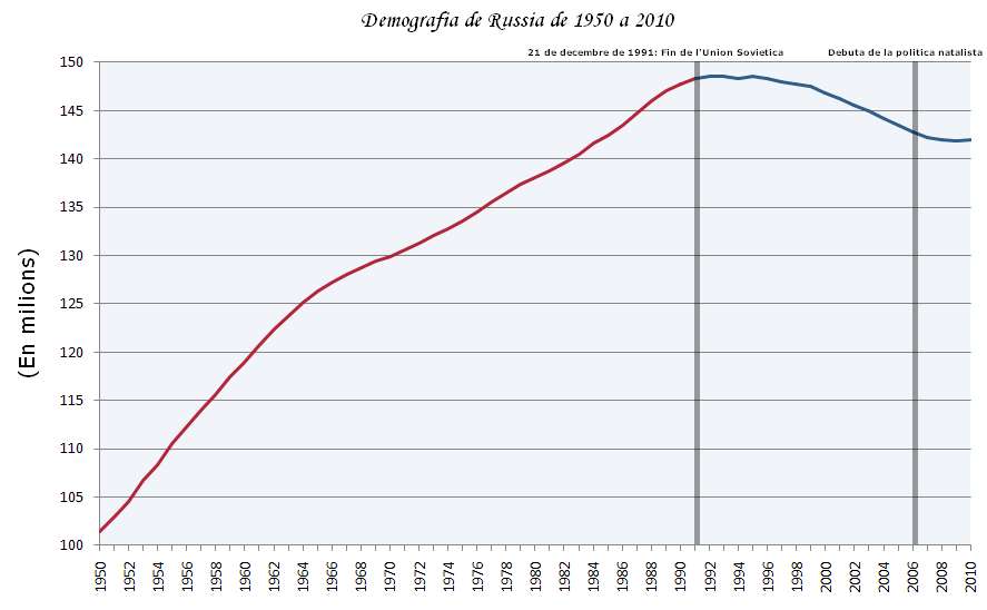 An Occitan version of "Demographics of Russia"